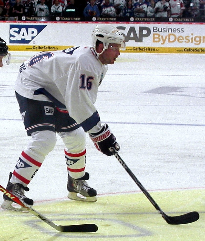 Mike Glumac, Ice hockey player from Canada, forward